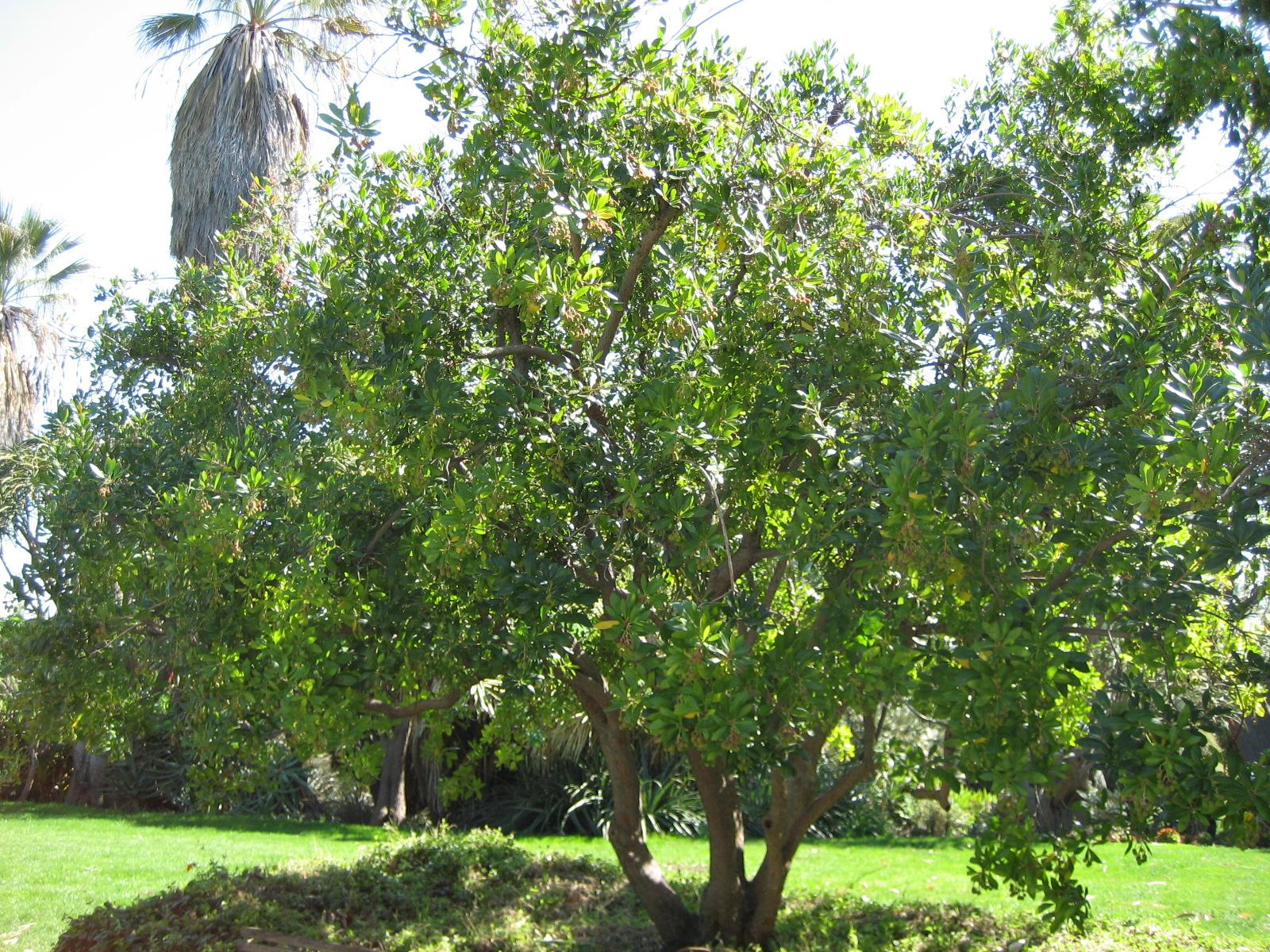 Photographed at Huntington Gardens (Los Angeles) in March